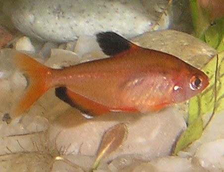 Dubrovsky Alexander (aka user:Aledubr), the author of the image, releases it to the public domain.